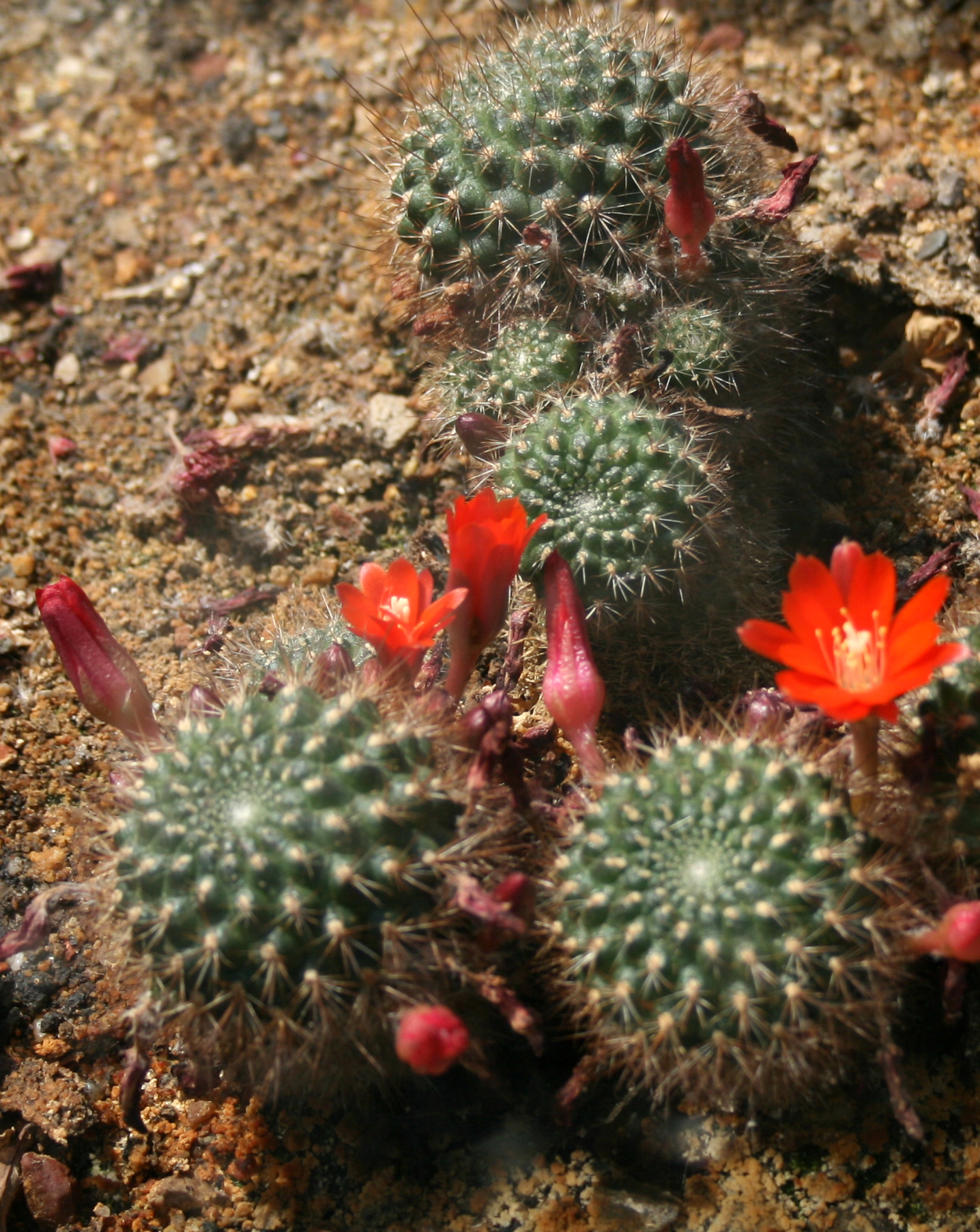 Cactus Rebutia ithyacantha from the Botanical Gardens of Charles University, Prague